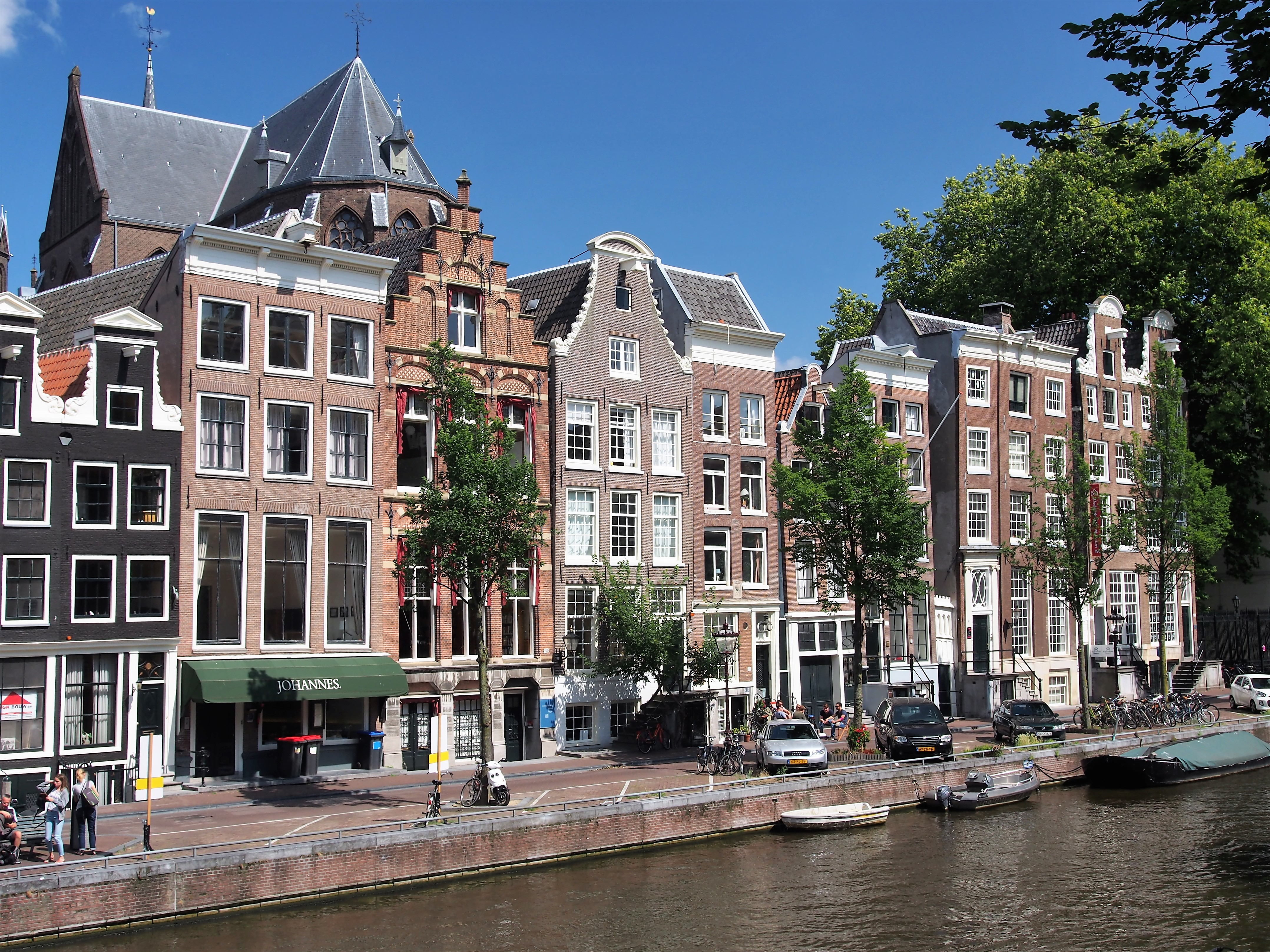 Photographed in Amsterdam.